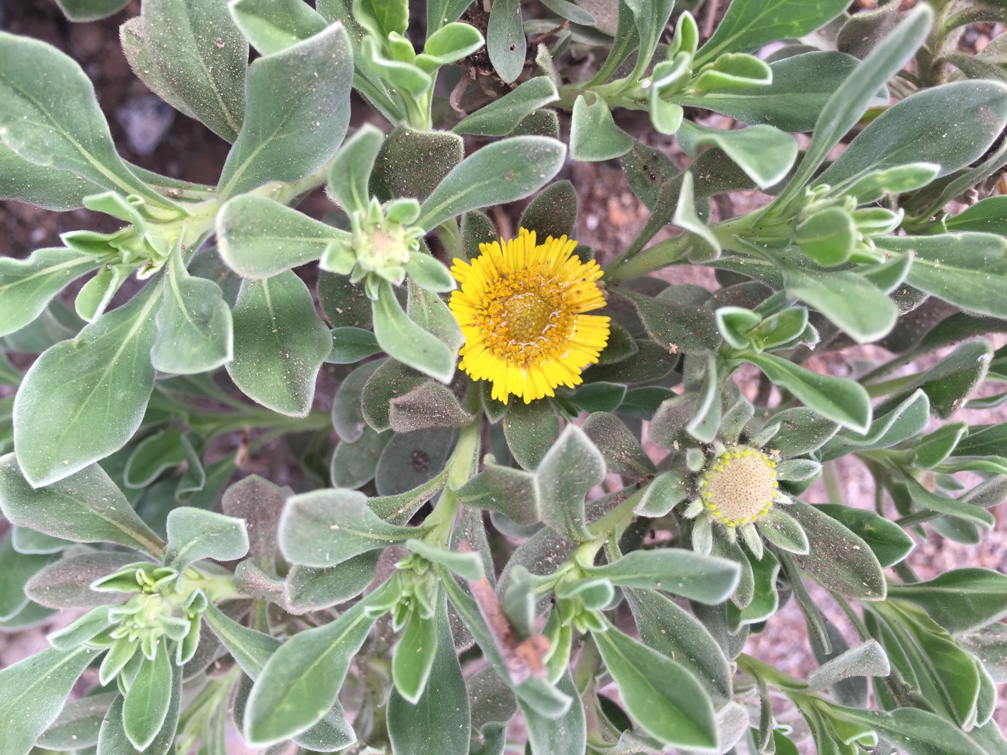 Asteriscus smithii (synonym Nauplius smithii), a species endemic to Cape Verde